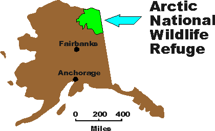 The location of the Arctic National Wildlife Refuge in northeastern Alaska.